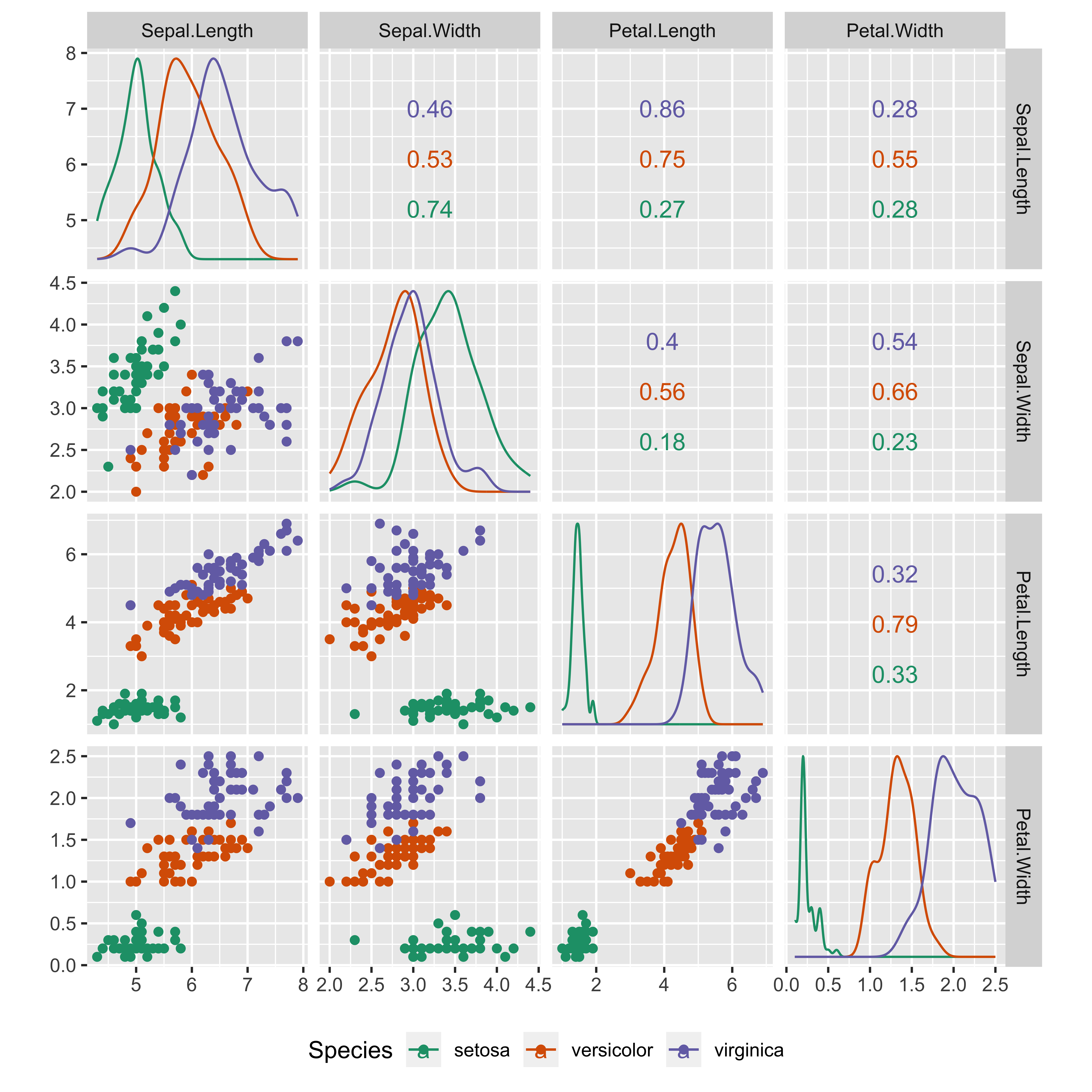 Pairs plot of the Iris flower dataset